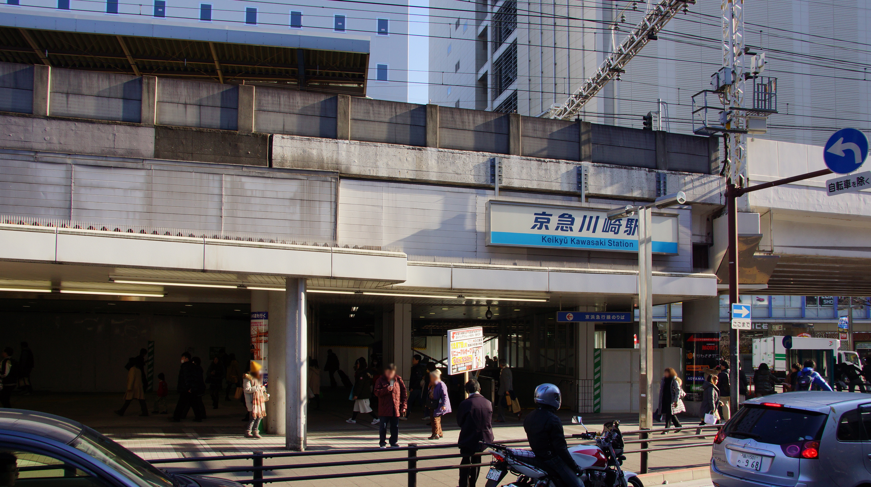 The entrance to Keikyu Kawasaki Station